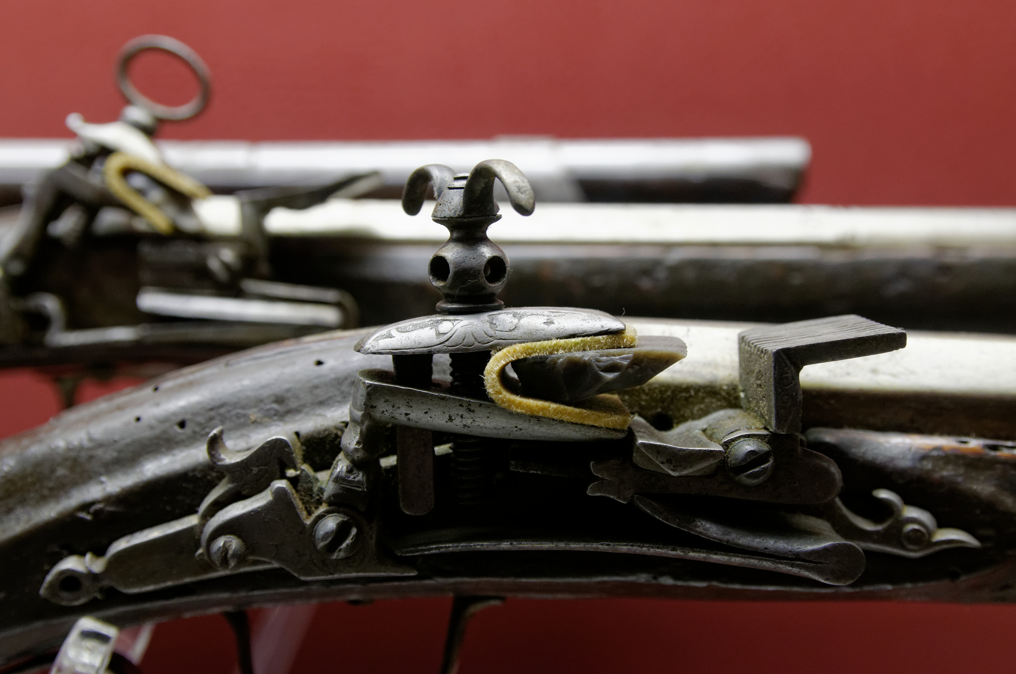 Detail of muskets, Palace Armoury in Valletta, Malta.